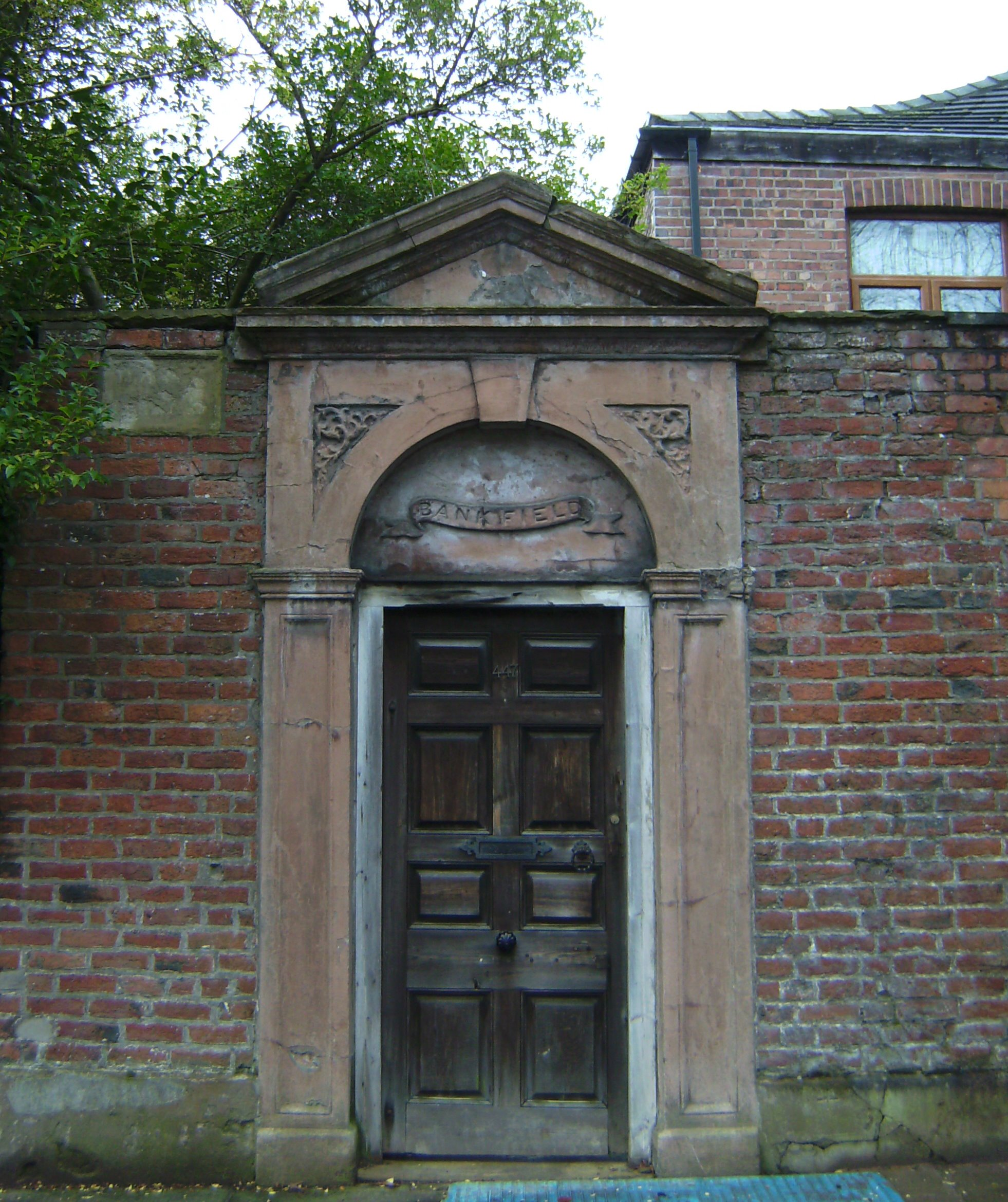 A fine old gate in a house wall on the Cliff